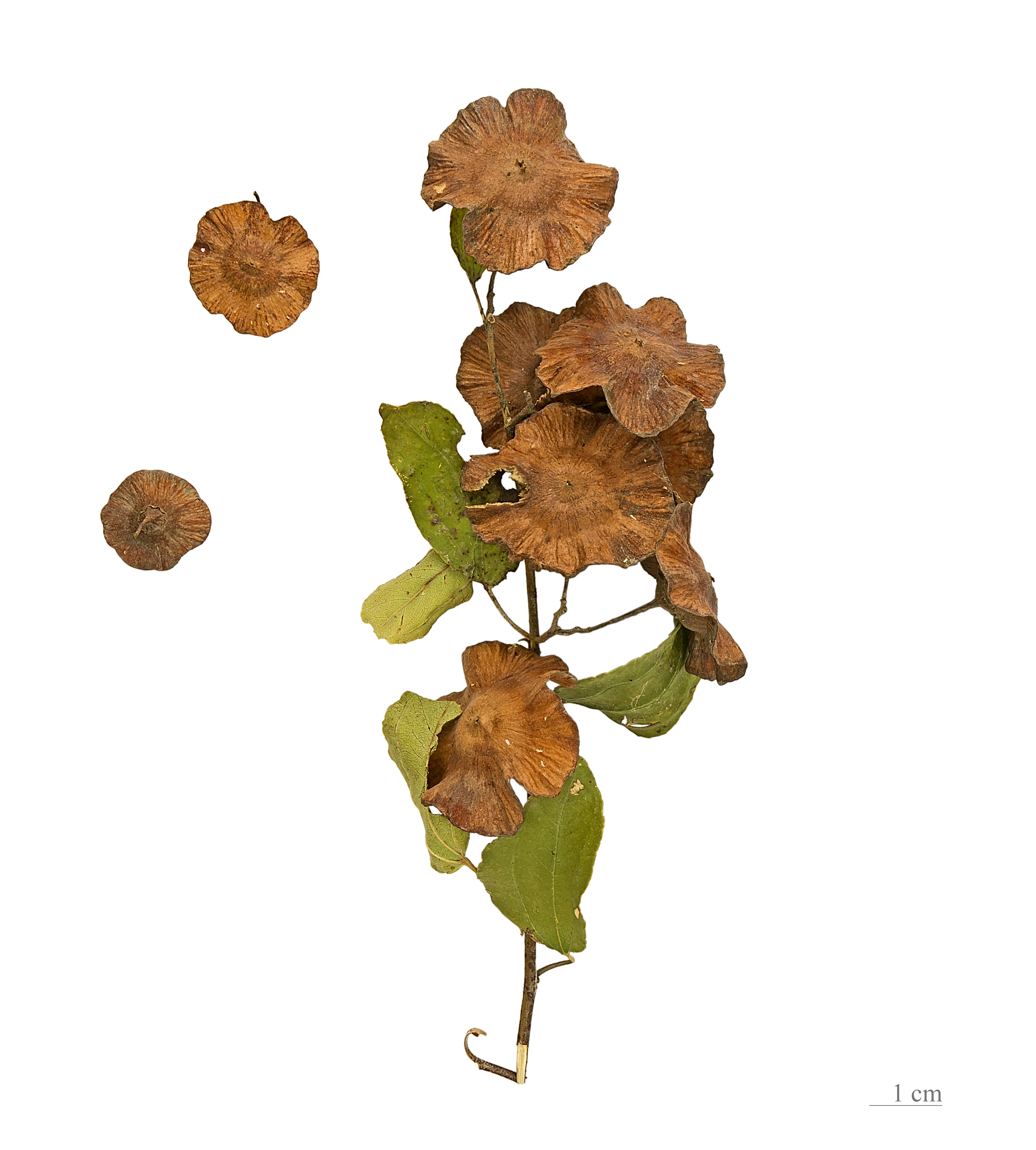 Jerusalem Thorn. Fruits and seeds